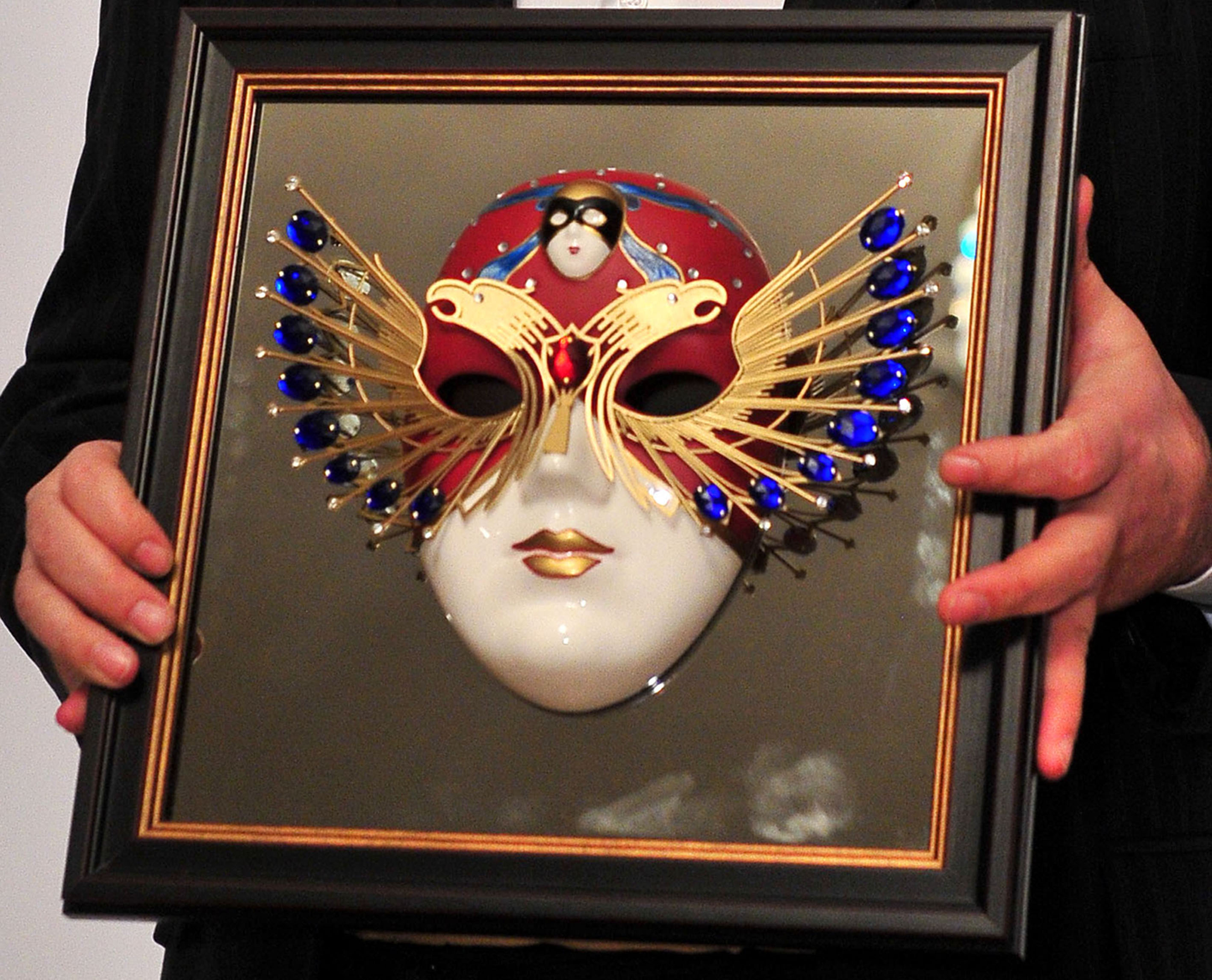 Golden Mask Award